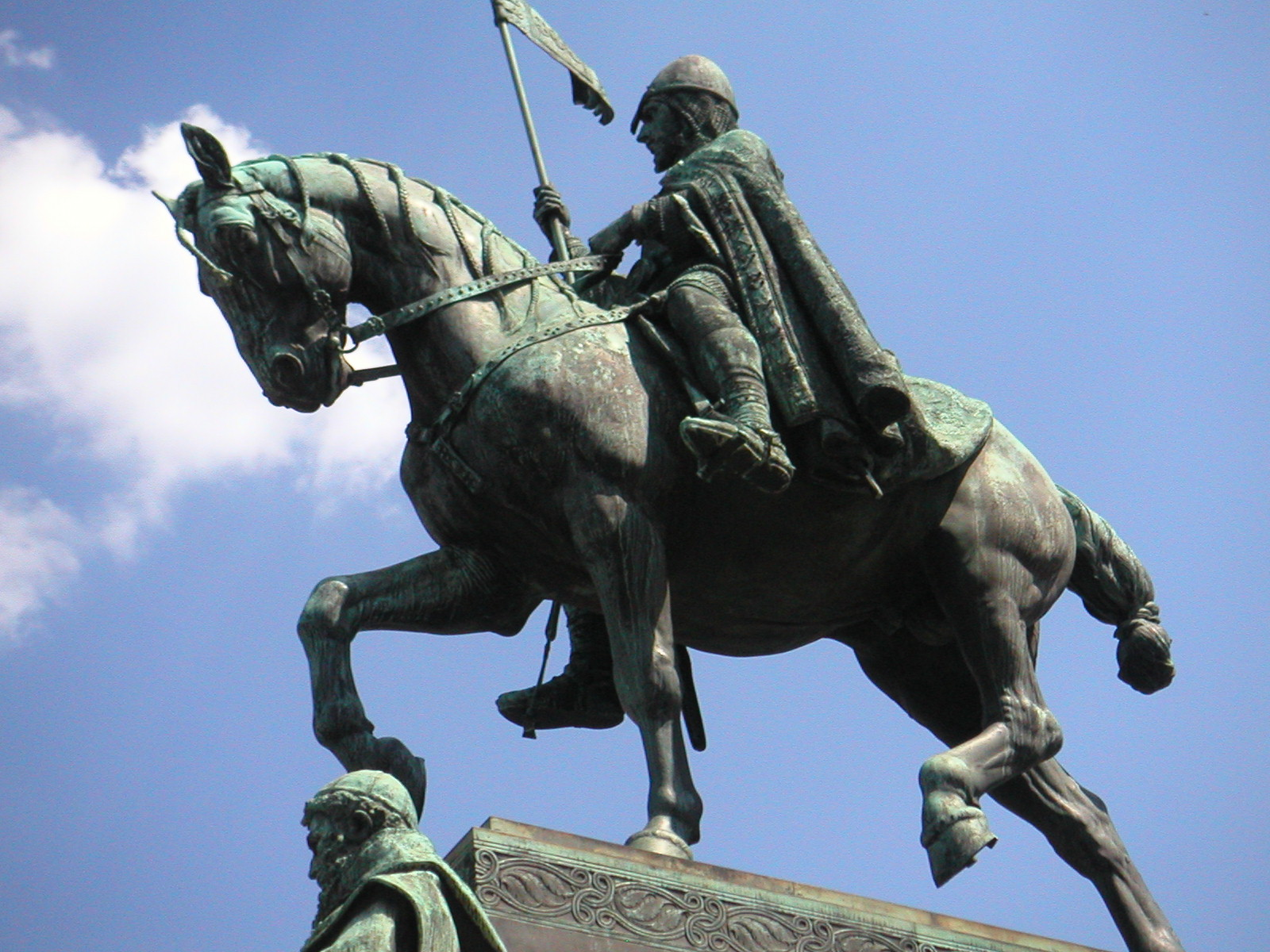 Statue of St. Wenceslas in Wenceslas Square. Sculpture by Josef Václav Myslbek.